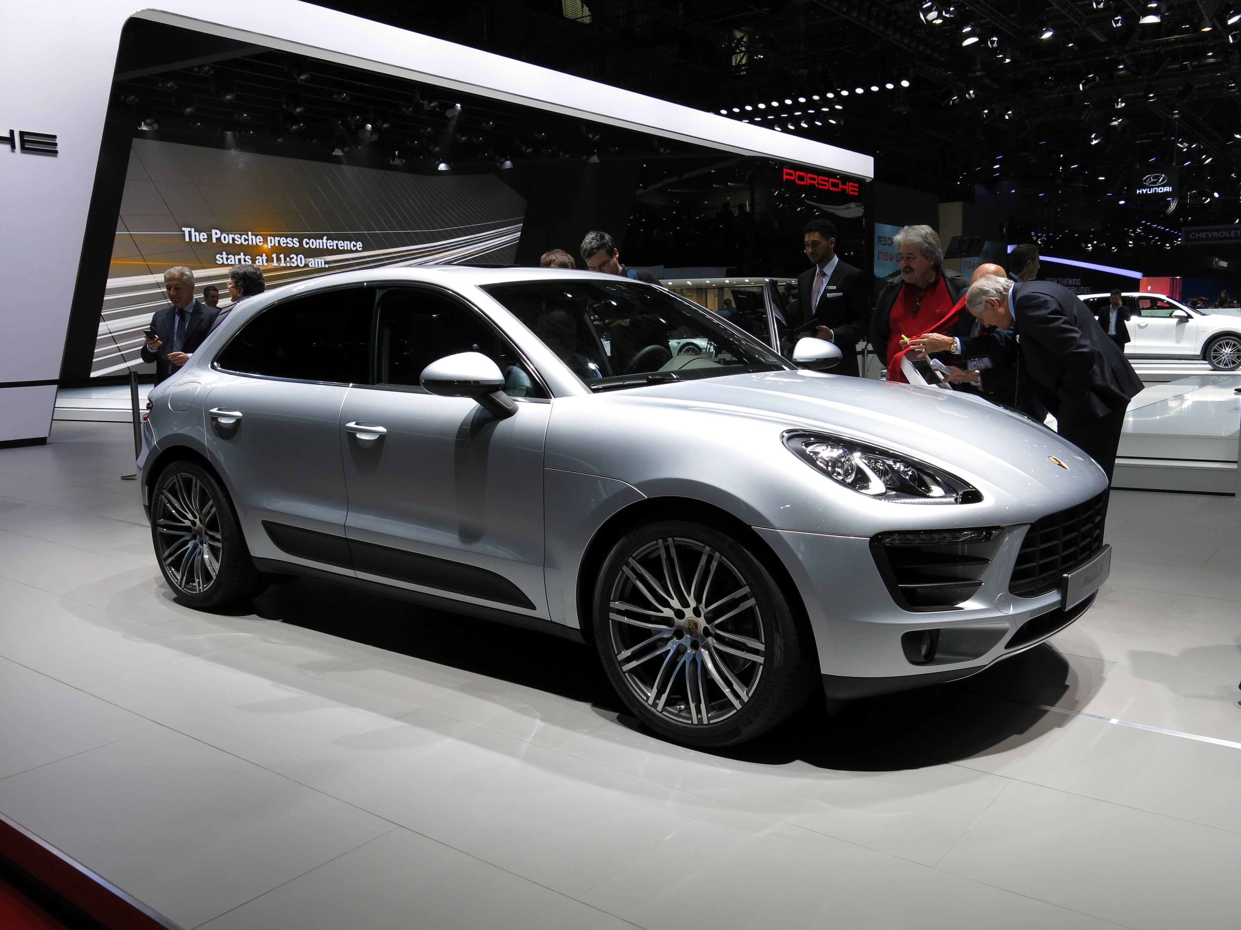 Geneva Motor Show 2015 (photo taken on the first press day)